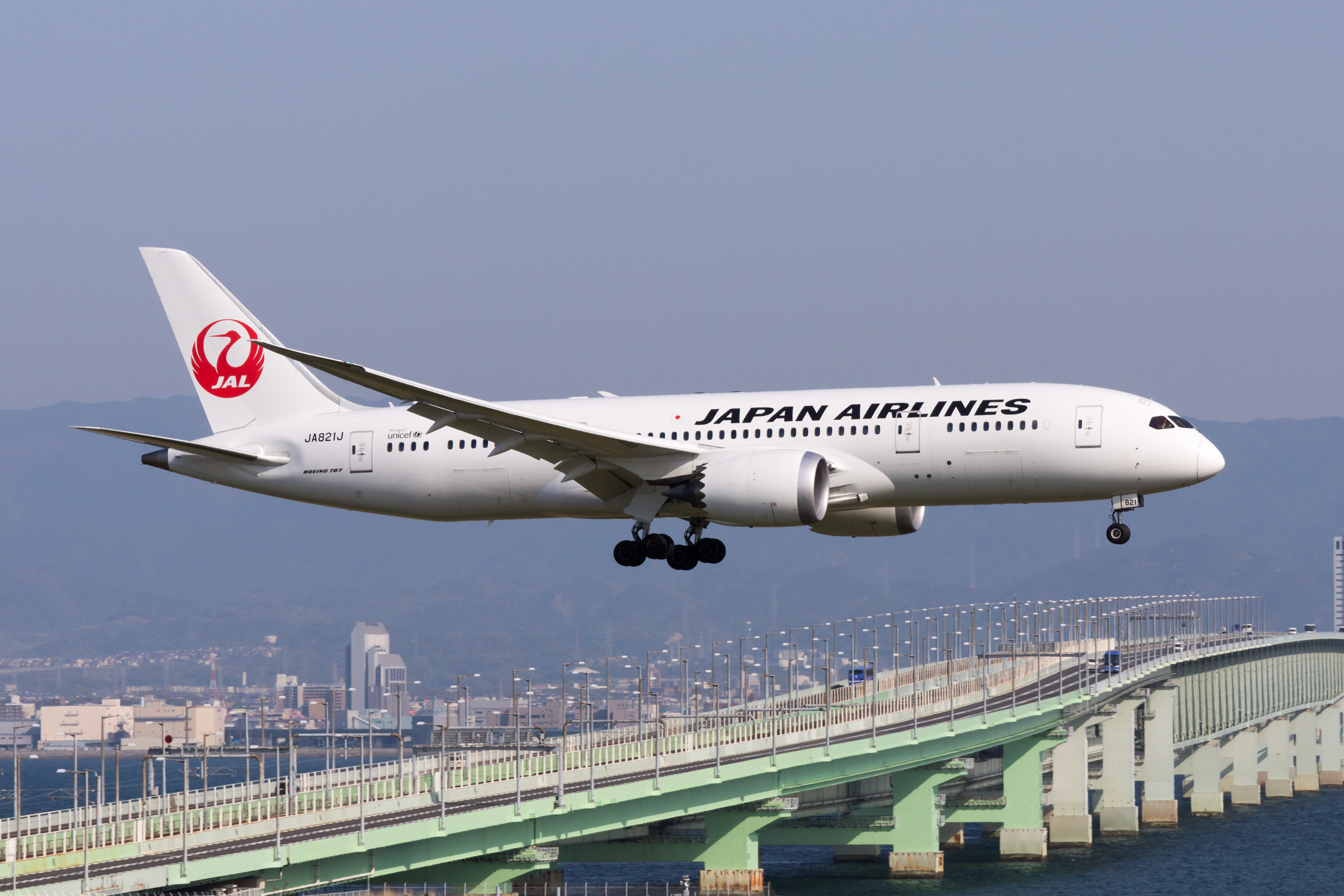 Japan Air Lines Boeing 787-8 Dreamliner